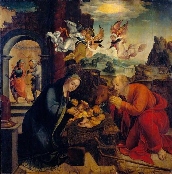 Panel from the altarpiece from the Mosteiro da Trindade